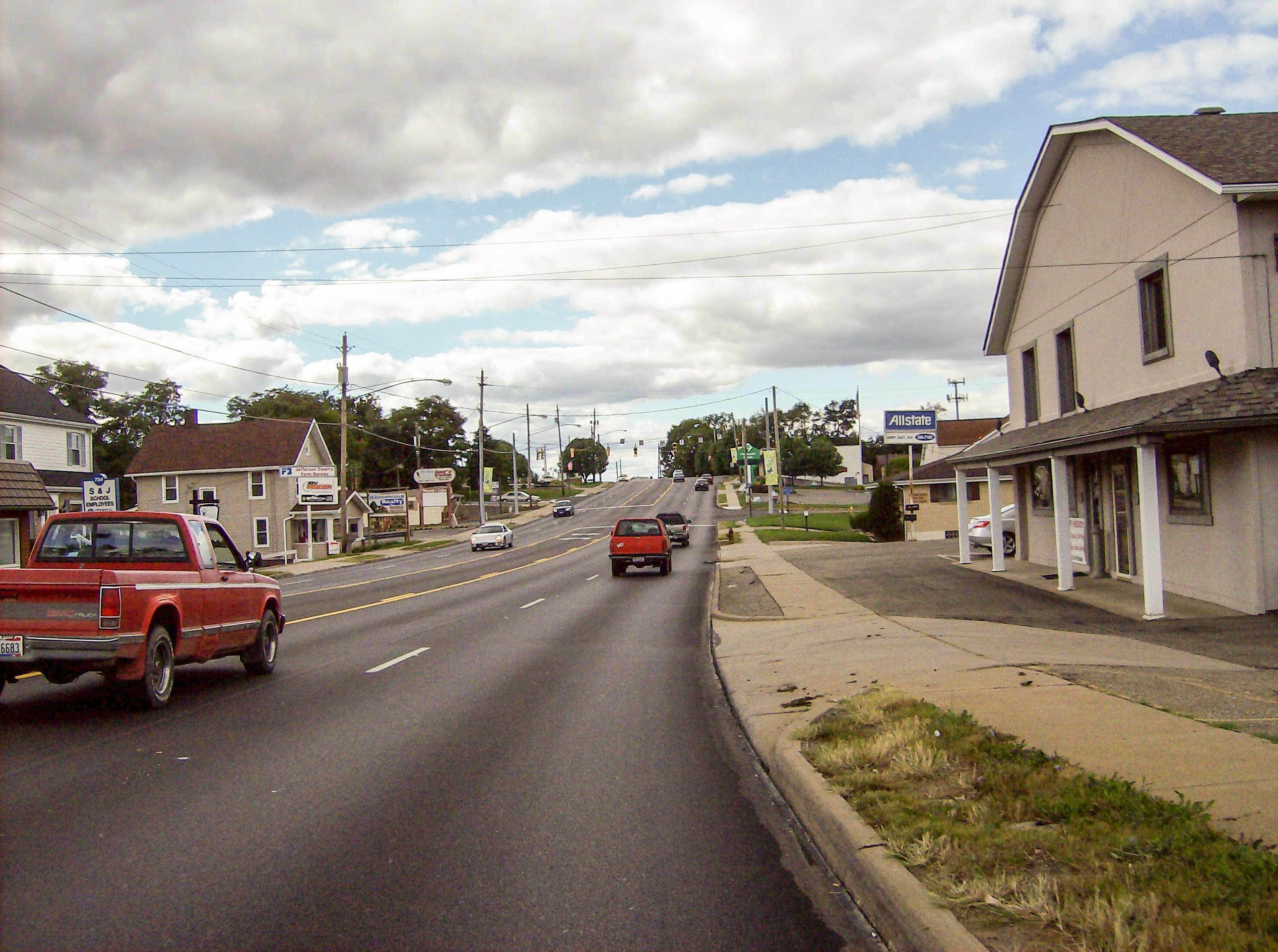 Along westbound State Route 43 in central Wintersville, a village in Jefferson County, Ohio, United States.